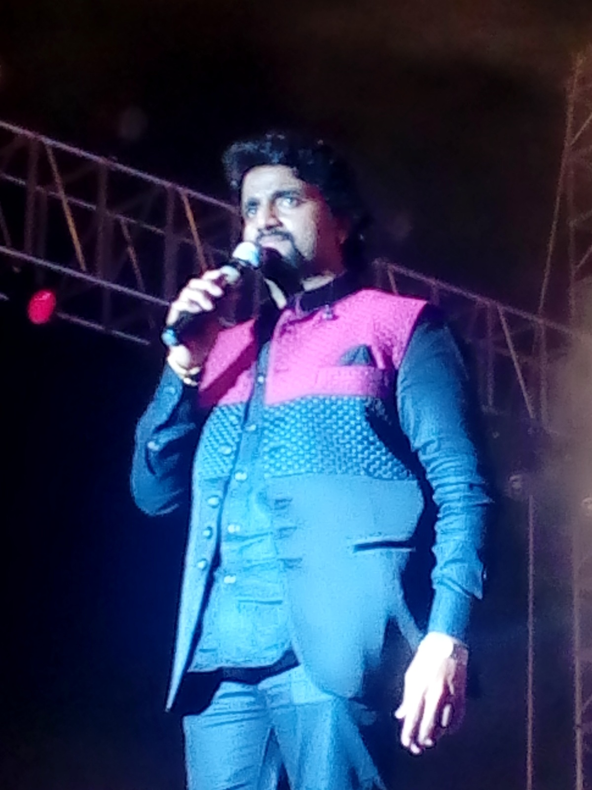 Adarsh Shinde in Jafrabad, Jalna district, Maharashtra, India.